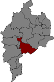 Location of Fígols i Alinyà in Alt Urgell